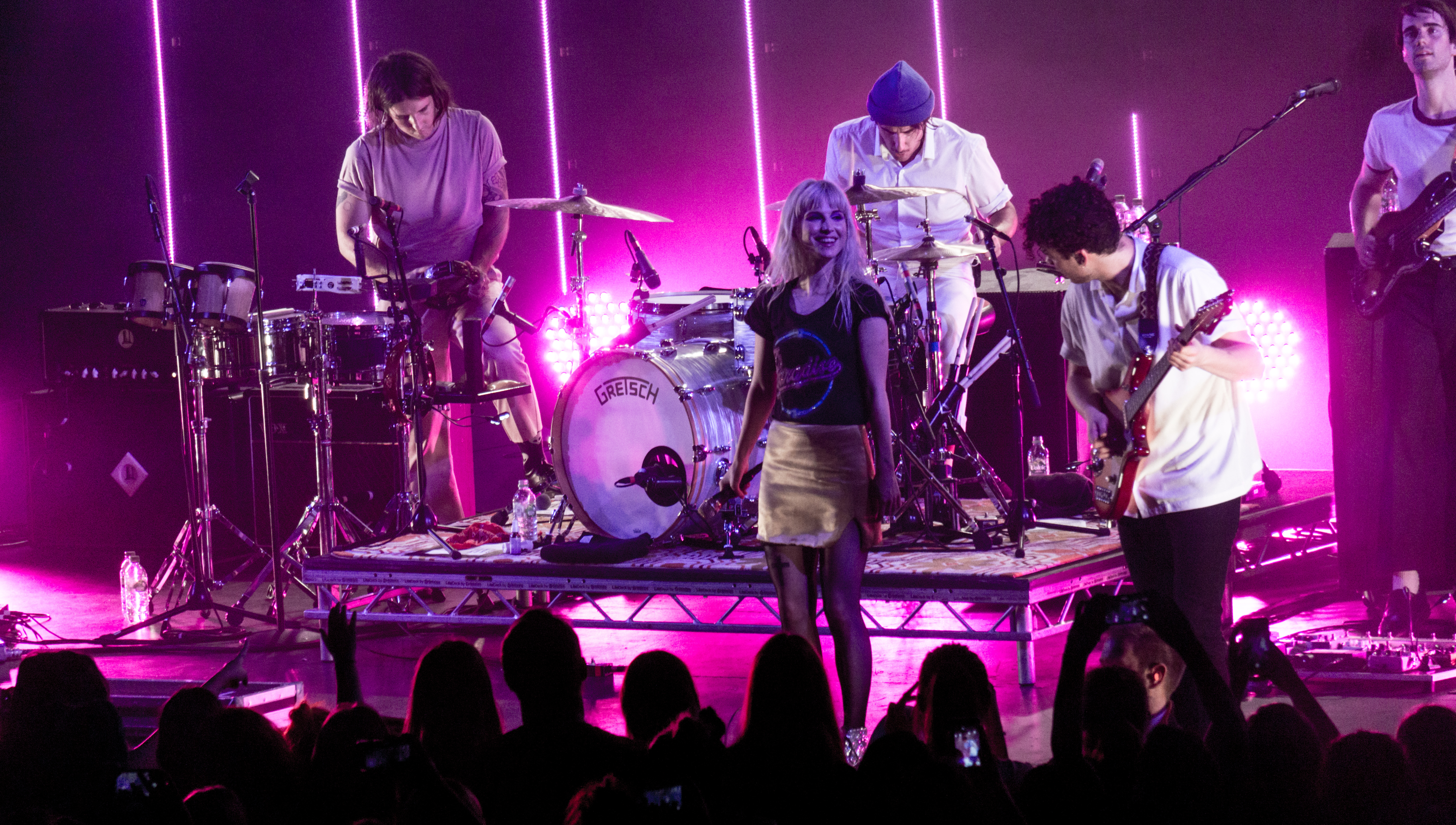 Paramore live concert at Royal Albert Hall, London, UK.